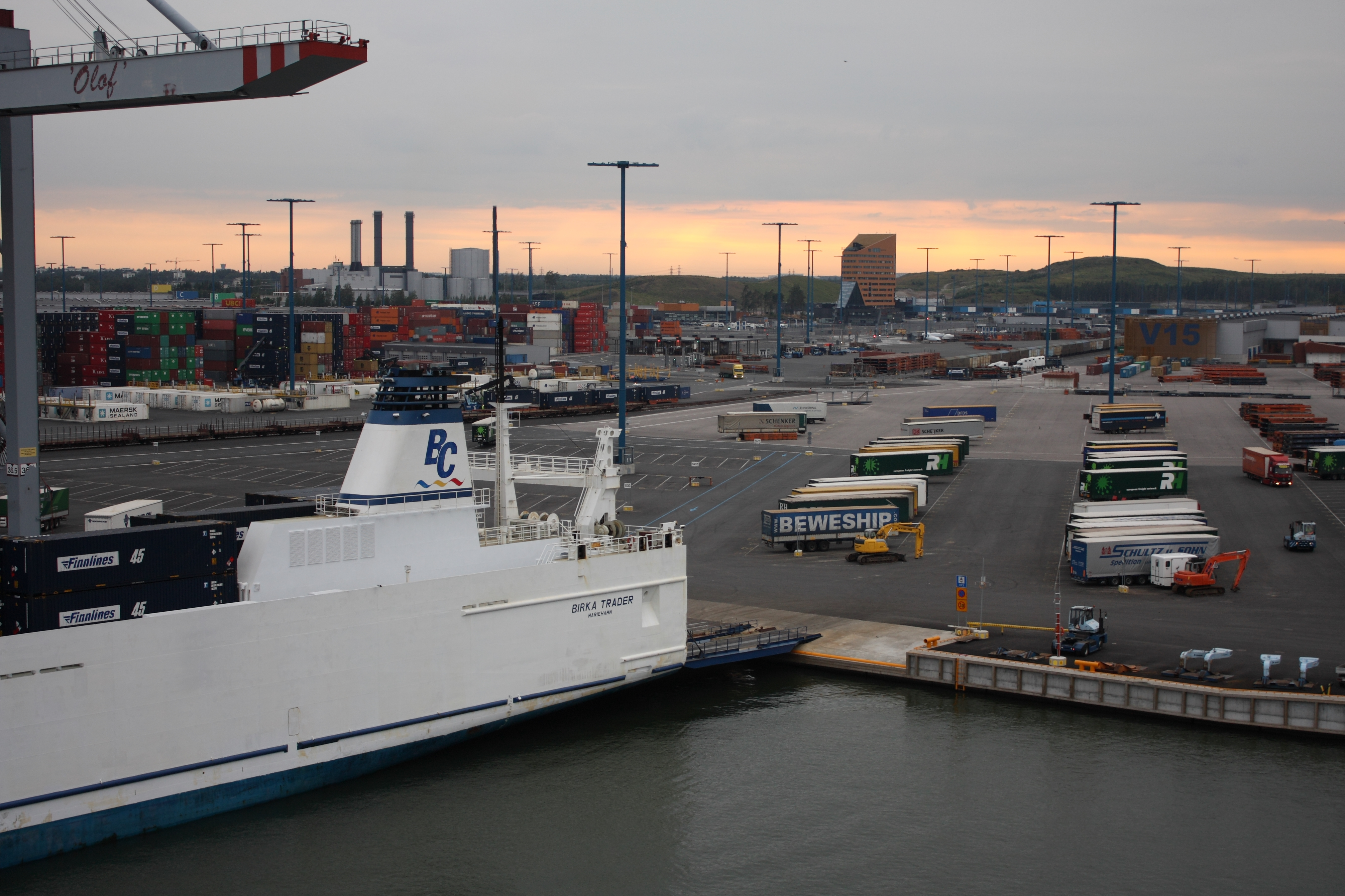 Vuosaari harbour, Helsinki, Finland. The photo was taken from the deck of M/S Finnlady. The ship is M/S Birka Trader of Finnlines.